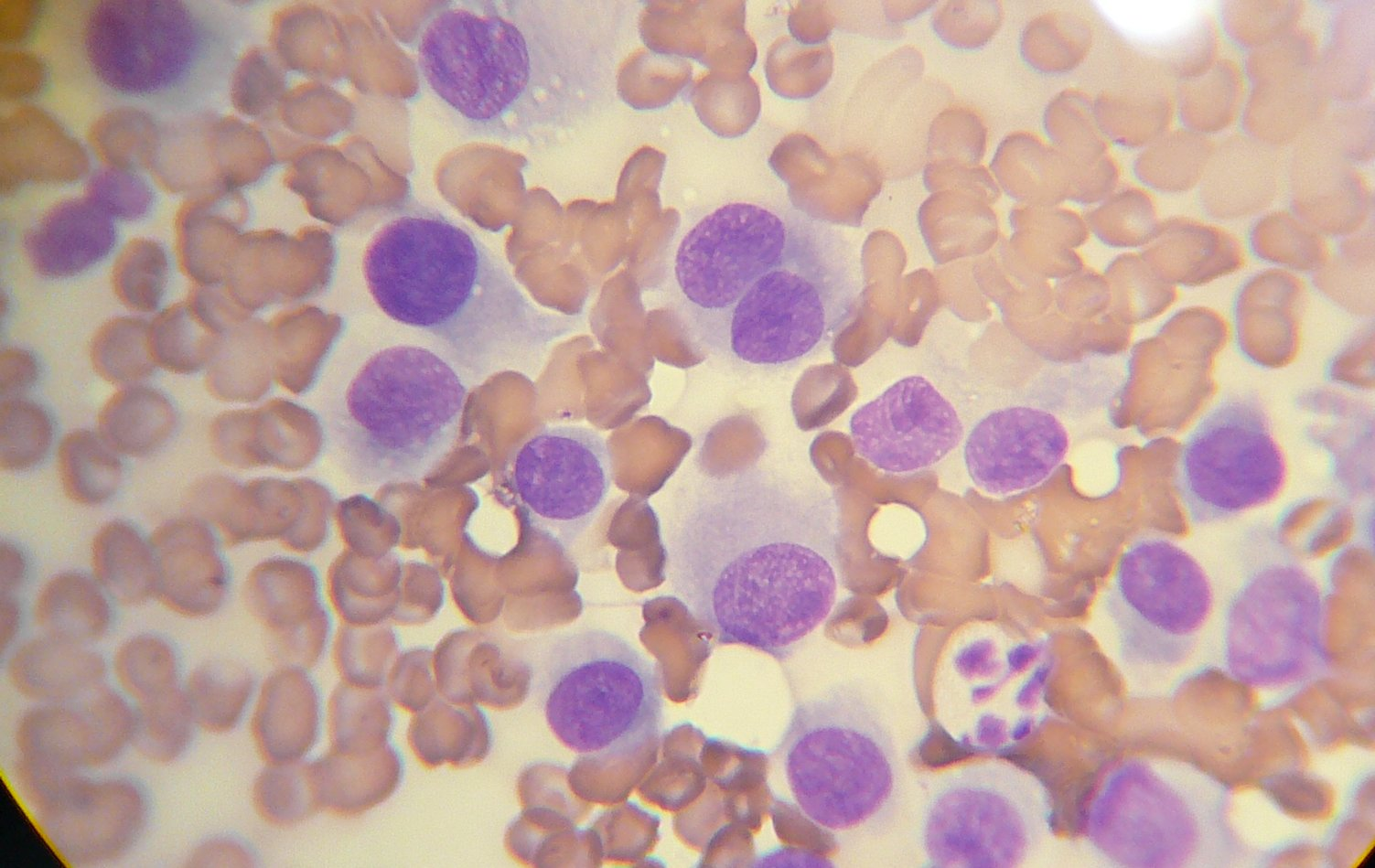 Cytology from a needle aspiration biopsy of a canine histiocytoma. One multinucleate cell is seen. Slide was stained with a modified Wright's stain.